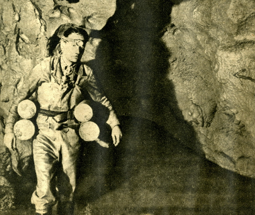 Hubert Kessler in Zichy Cave, Romania